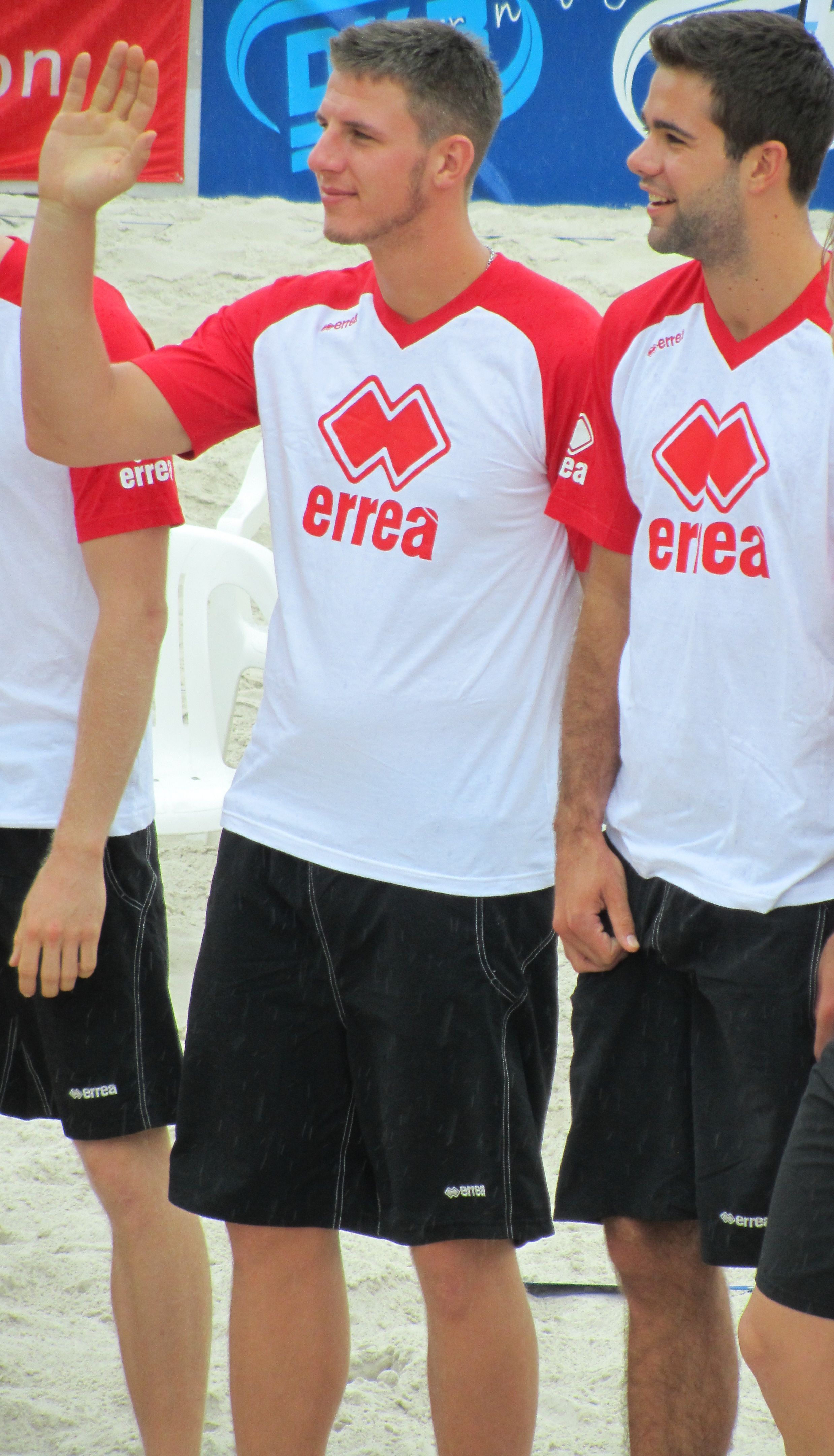 the German volleyball player Matthias Böhme at the team presentation of evivo Düren